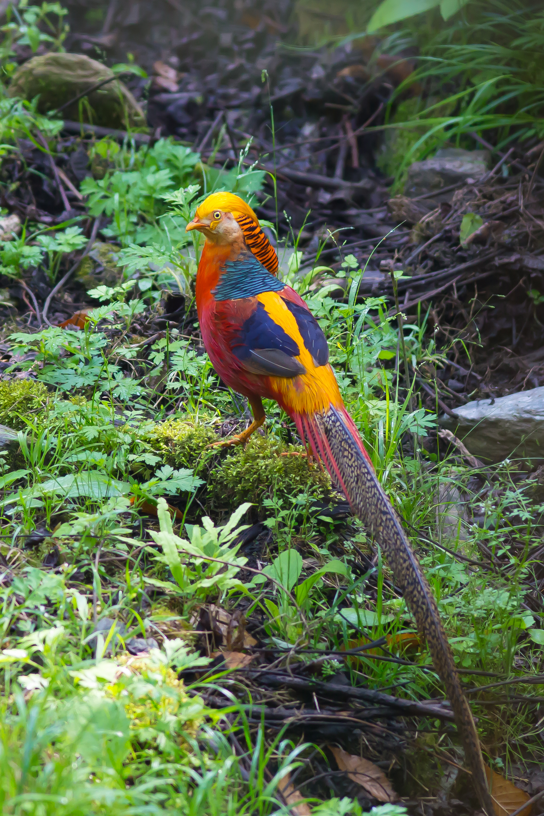 Golden Pheasant, Tangjiahe Nature Reserve, Sichuan, China